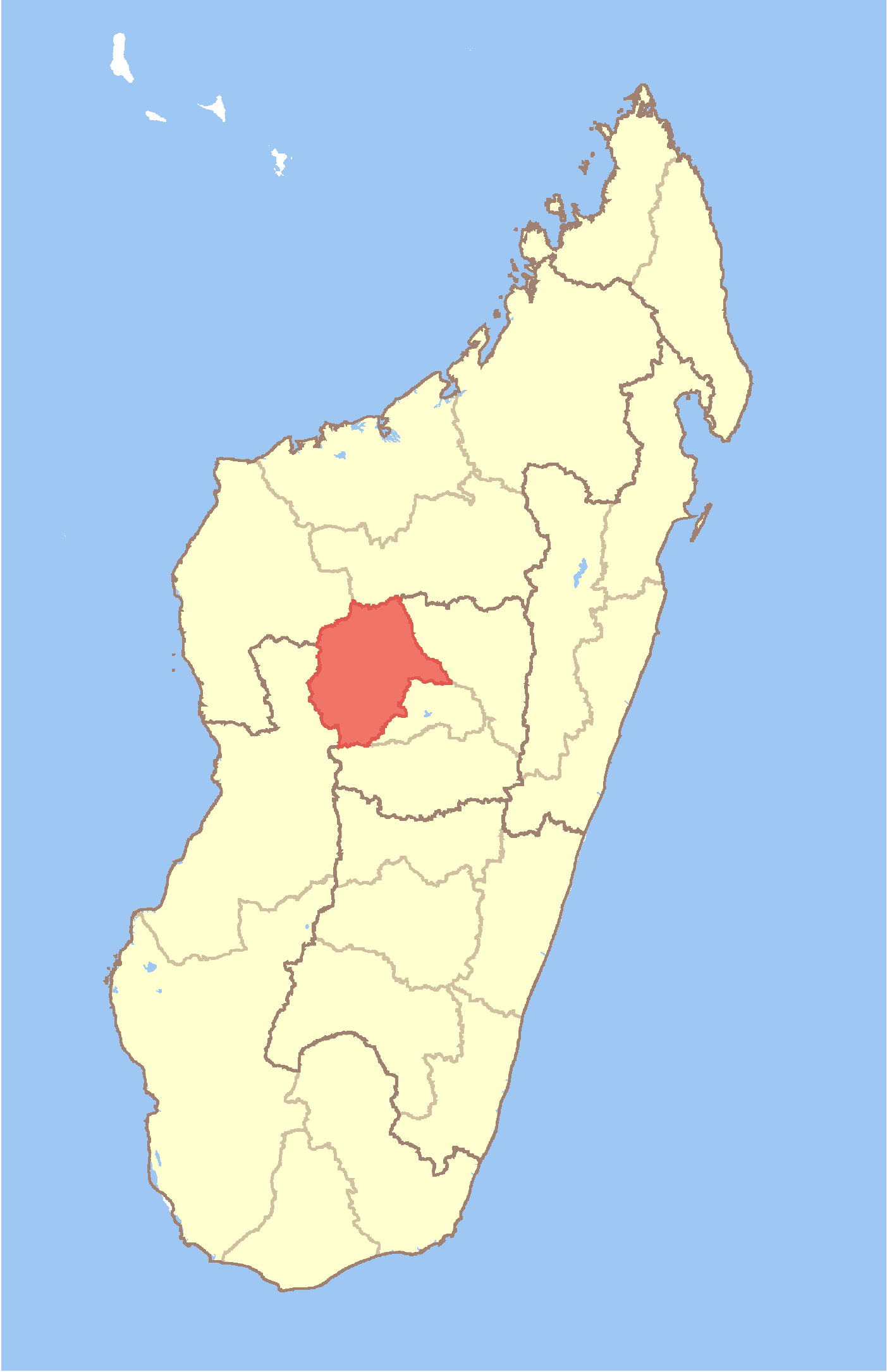 Map of Madagascar with Bongolava Region highlighted